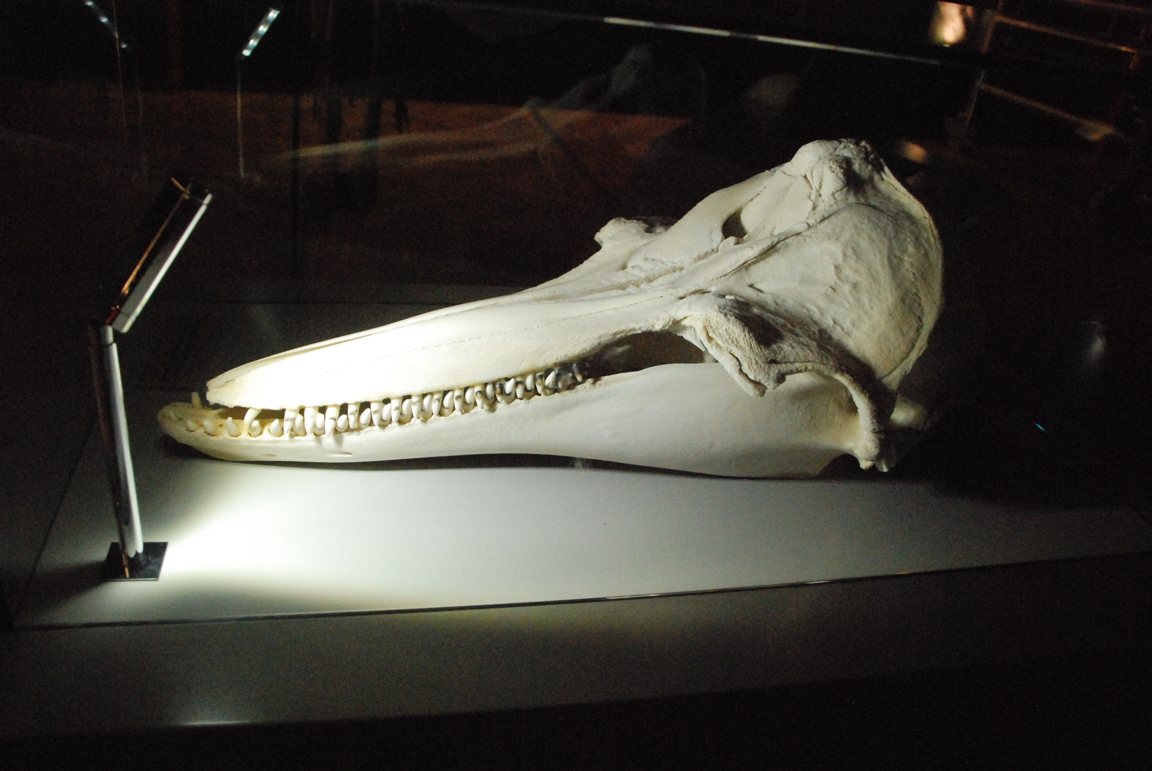 The skull of the common bottlenose dolphin (Tursiops truncatus).